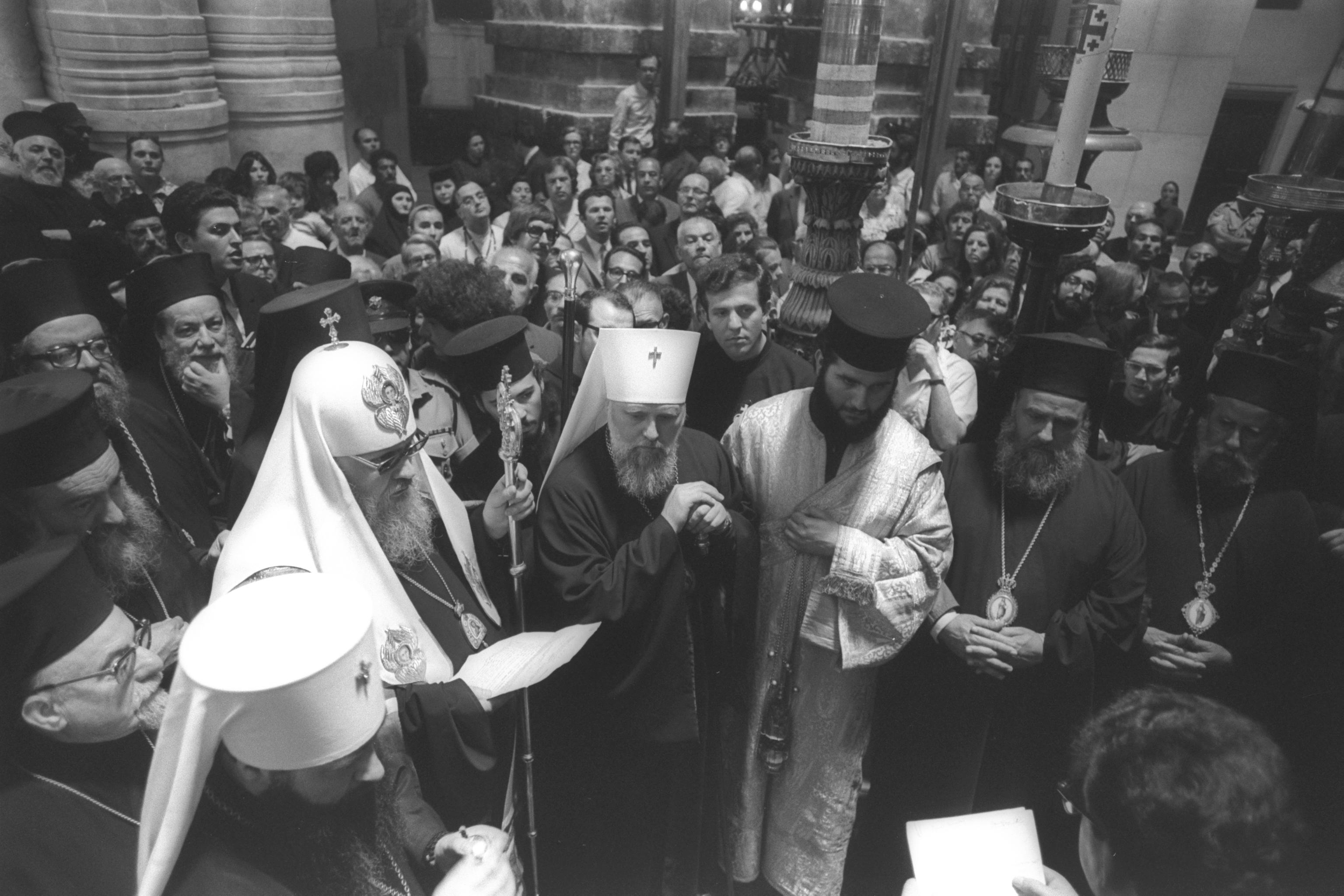 Russian Orthodox Patriarch Pimen in his official welcome in the Church of the Holy Sepulchre in Jerusalem.